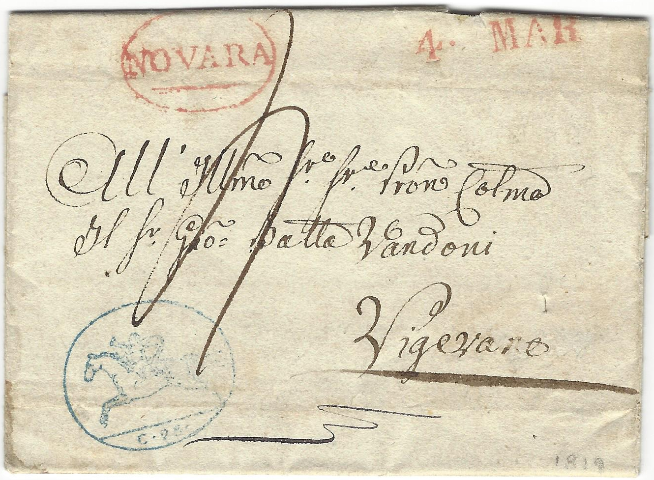 A postal item issued in Sardinia in 1818